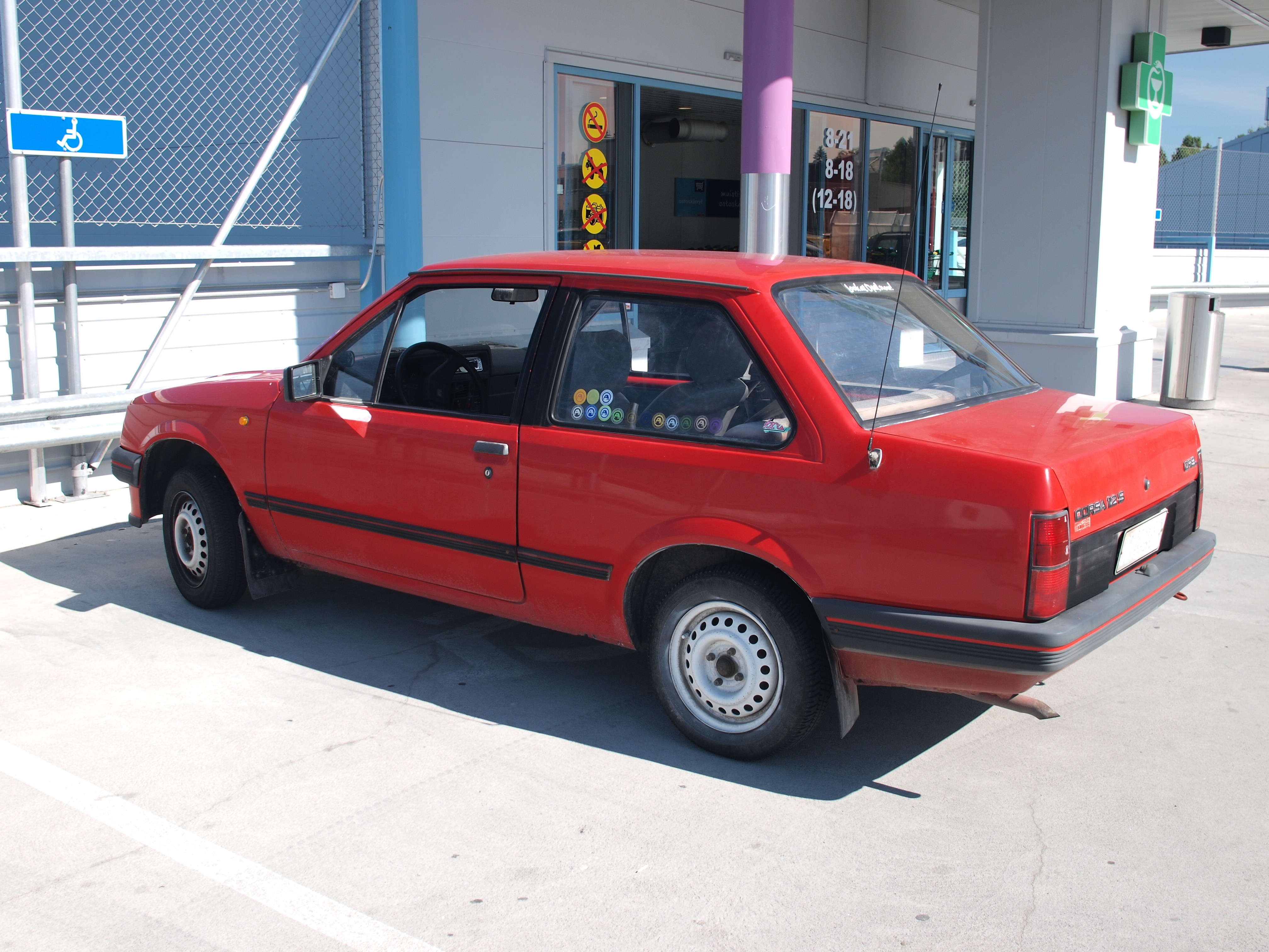 Red Opel Corsa A 2-door, rear end.